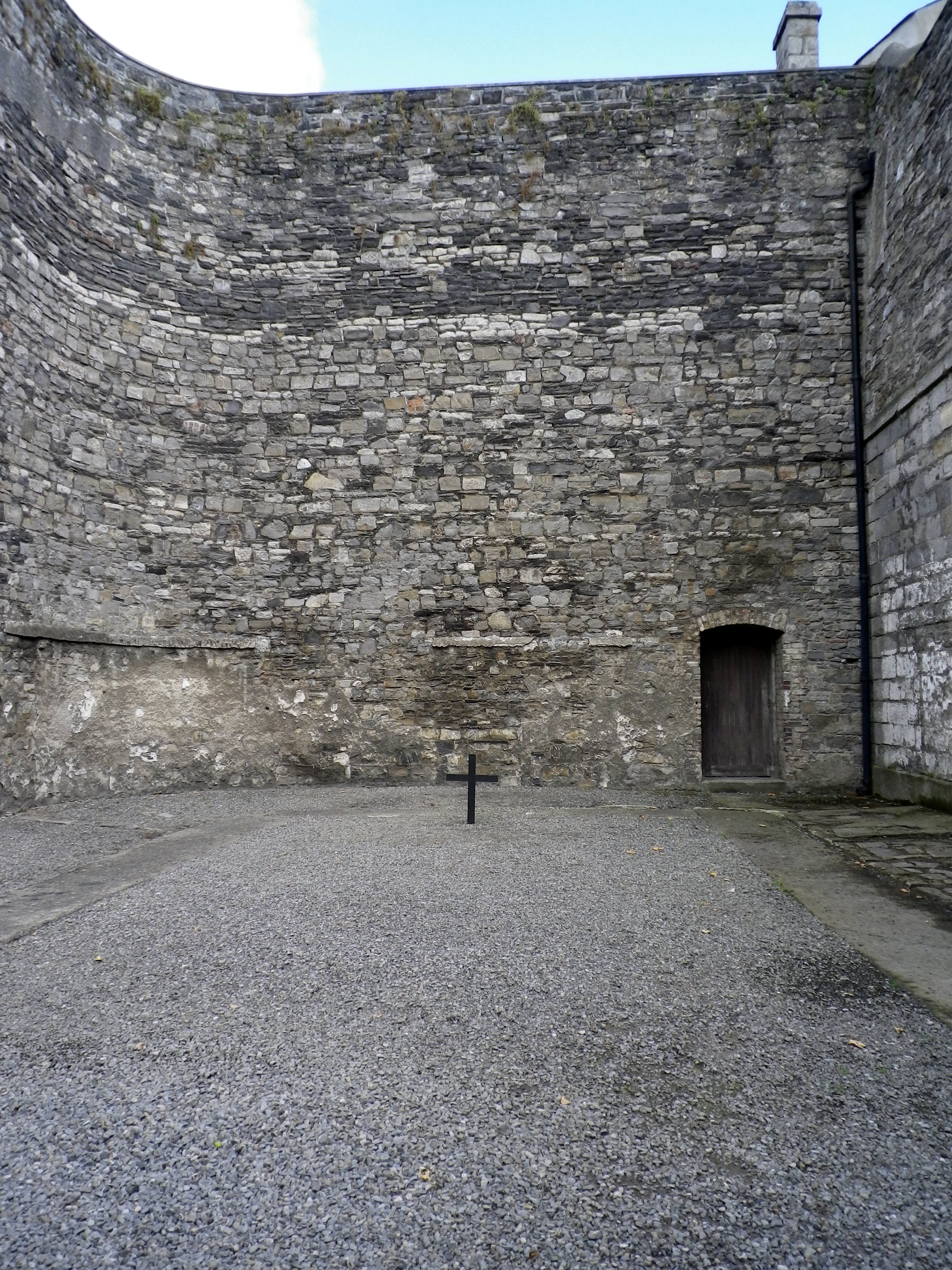 place of execution of the leaders of the 1916 Rising